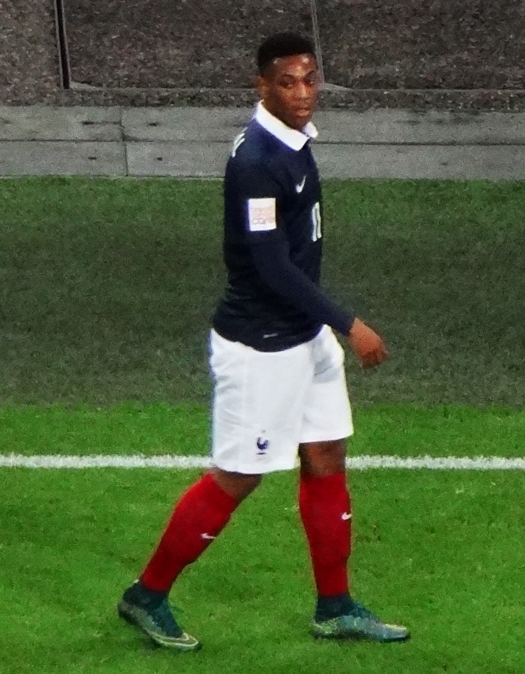 Two 11s - England's Raheem Sterling and France's Anthony Martial